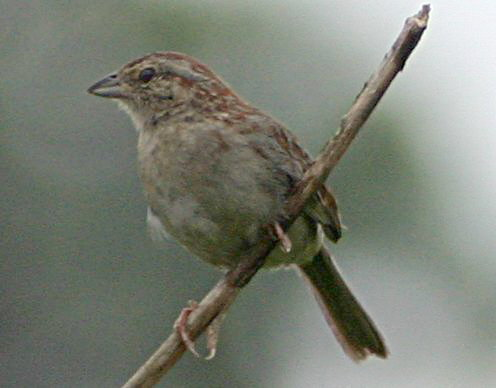 Bachman's Sparrow Kissimmie Area, Florida, USA.